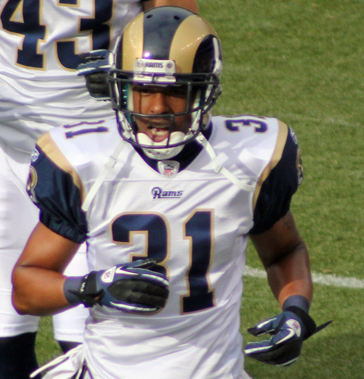 Justin King, a player on the Saint Louis Rams American football team.